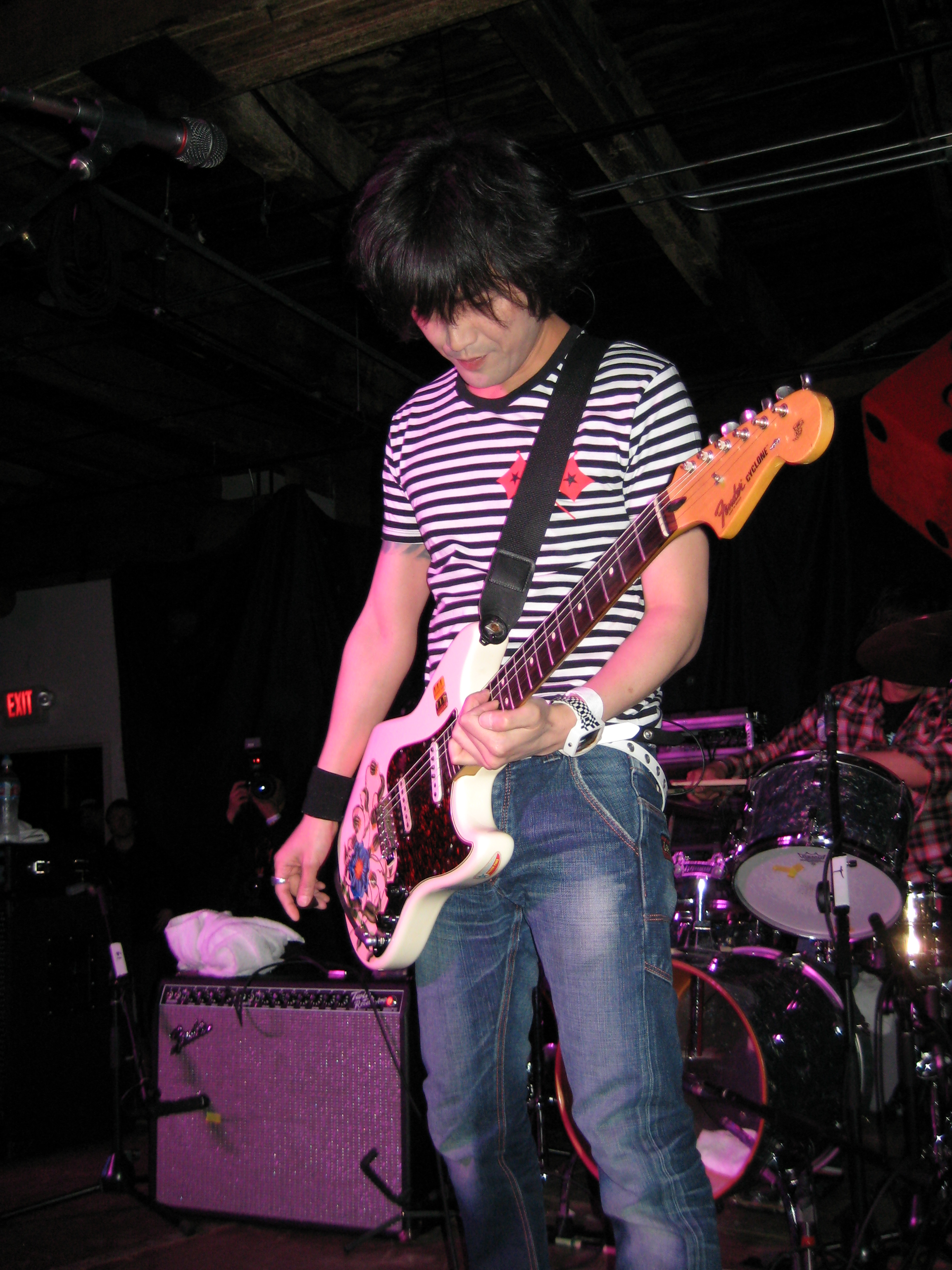 the pillows frontman Sawao Yamanaka during the Delicious Bump Tour in USA 08. Club Motor, Seattle, WA